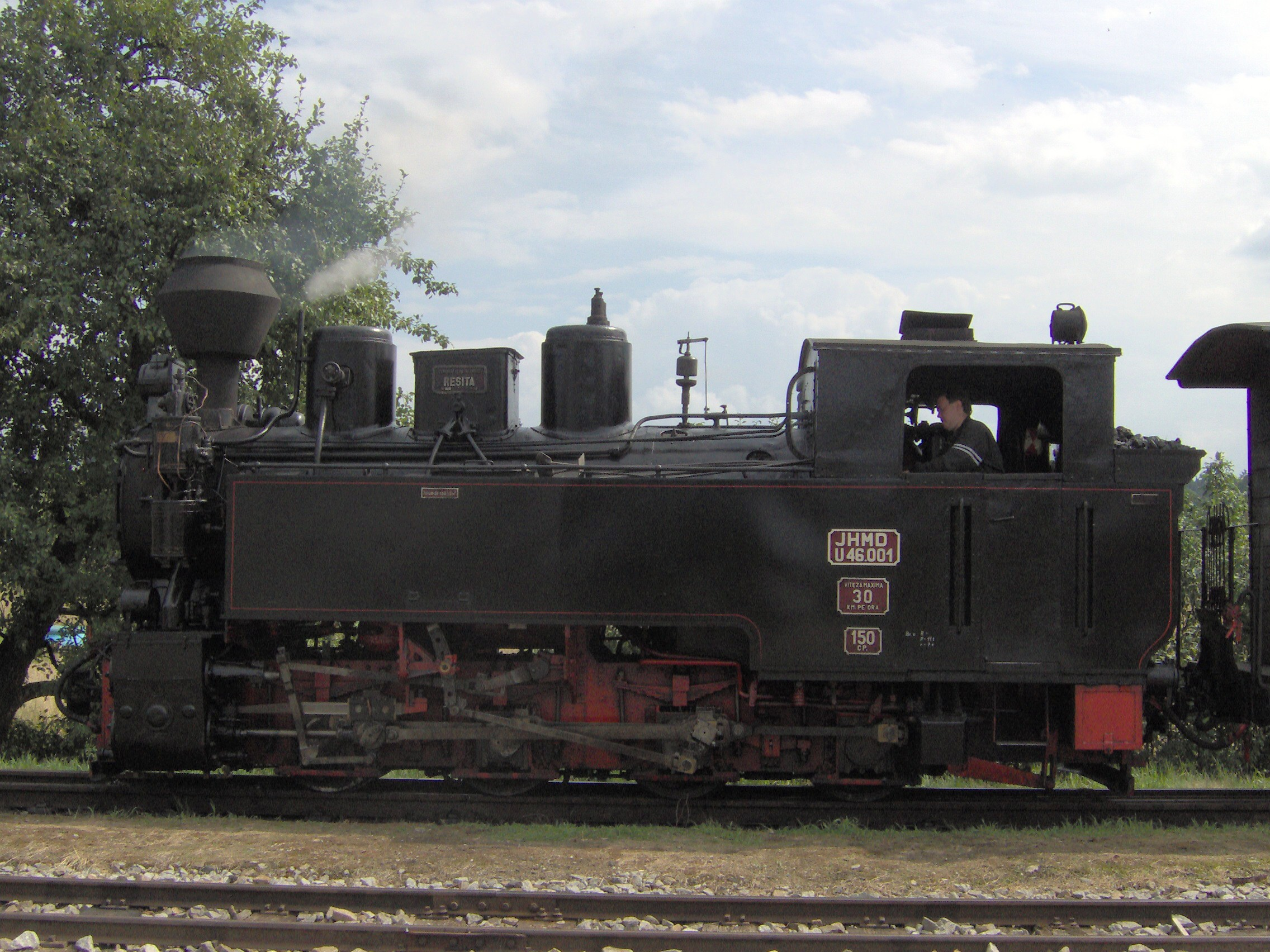 U 46.001 steam locomotive, Blažejov, Jindřichův Hradec District, Czech Republic